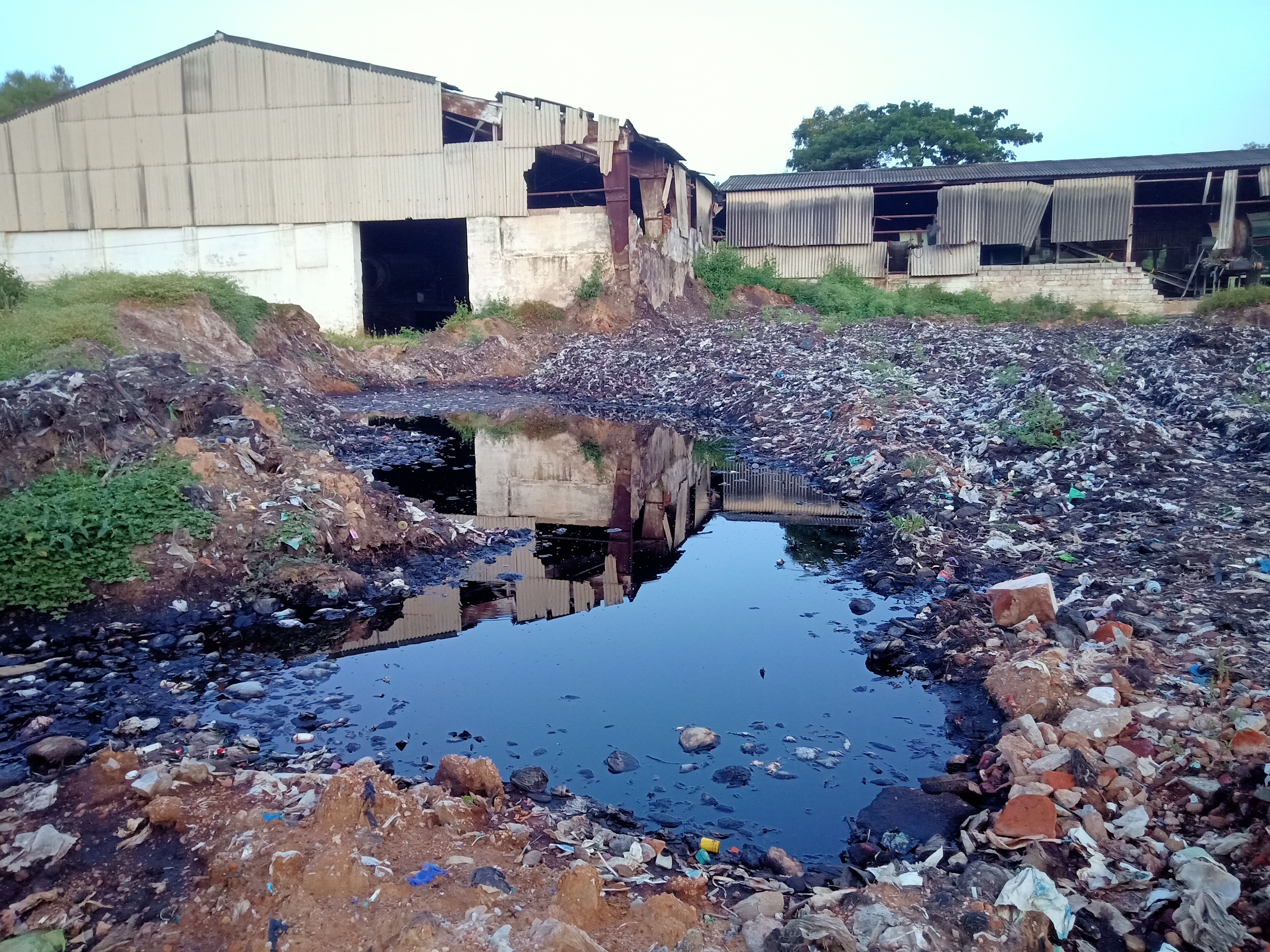 Leachate from Bangalore waste at Mavallipura